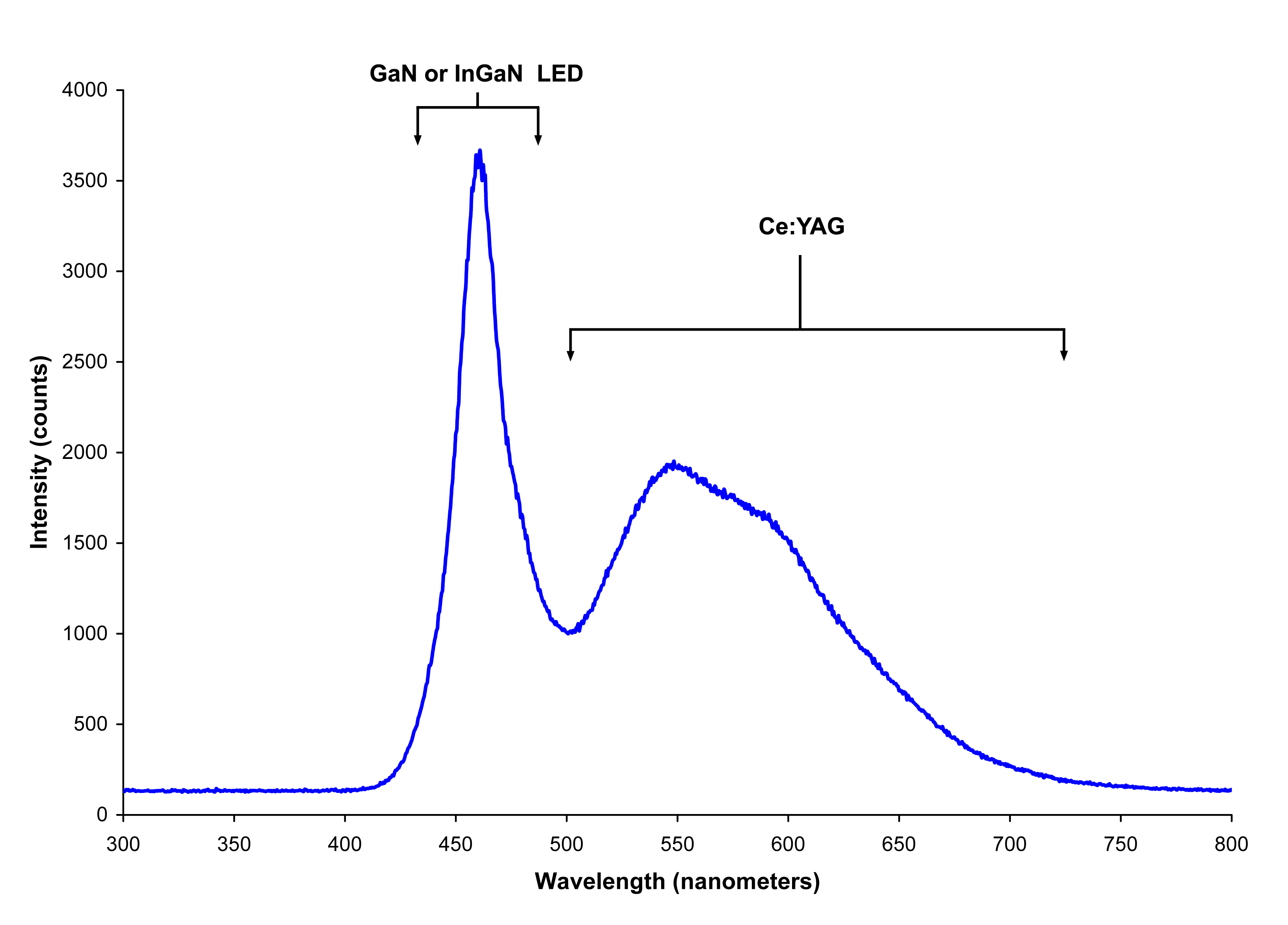 Original uploader description: Spectrum of a "white" LED showing blue light directly emitted by the GaN LED and the stokes shifted yellowish light emitted by the Ce:YAG phosphor. Spectrum taken by me using an Ocean Optics HR2000 spectrometer [1] with a high-OH solarization-resistant fiber optic light guide. This spectrum is not calibrated for intensity.